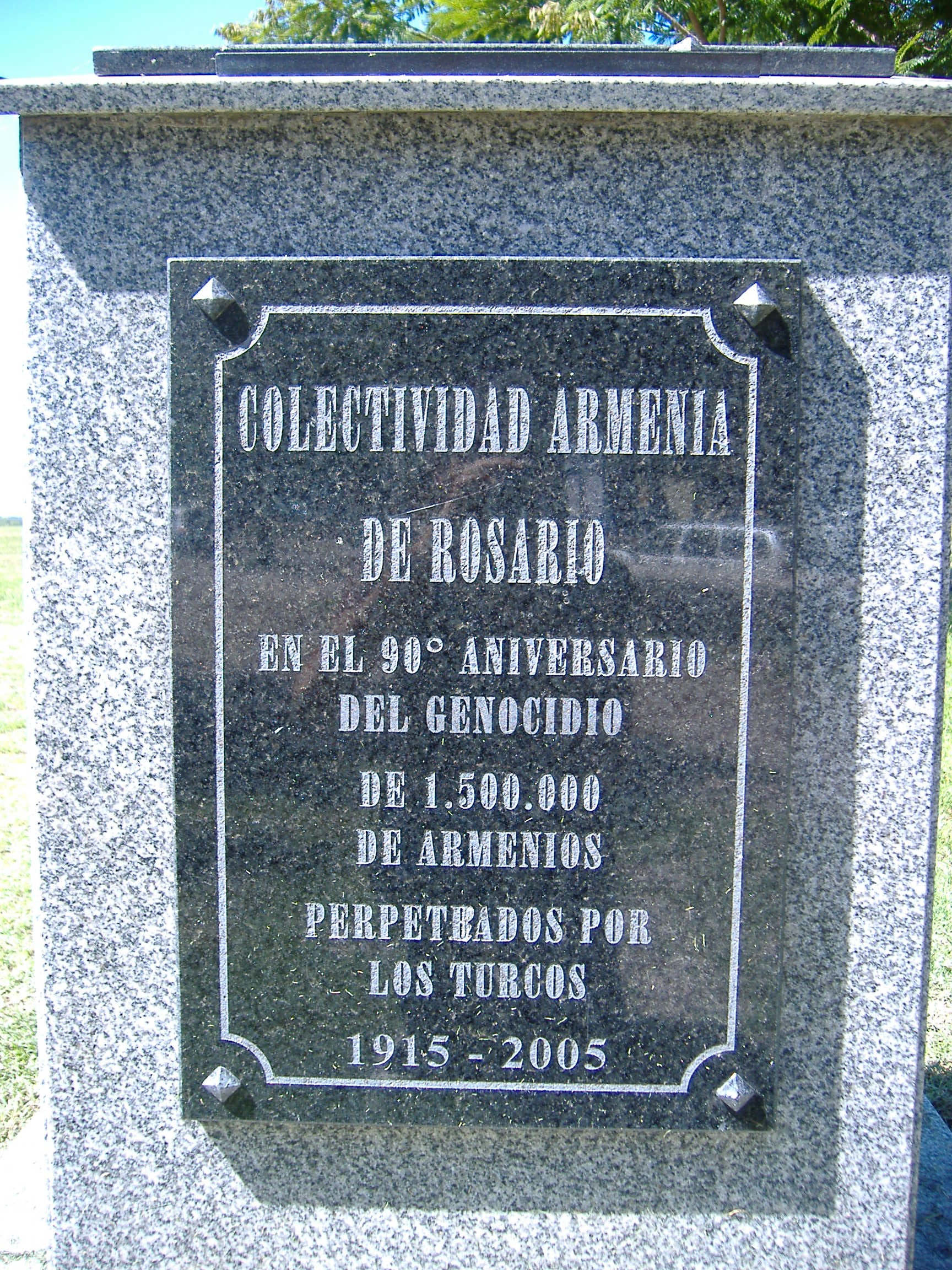 A plaque on a small memorial in a park in Rosario, Argentina, commemorating the 90th anniversary of the Armenian genocide (the killing of 1.5 million Armenians by the Turks, in 1915). The memorial was erected by the local Armenian immigrant community and it is located in a park zone beside the Paraná River.